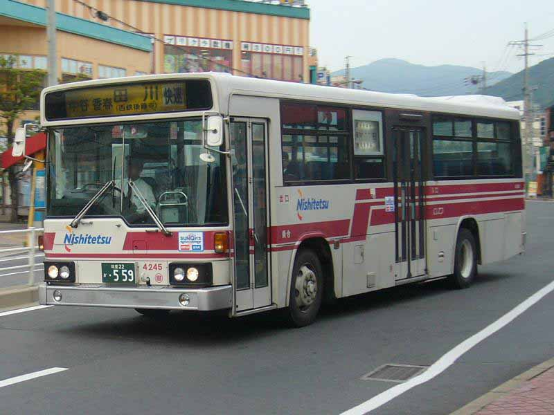 Mitsubishi Fuso Aero Star U-MS716S for Nishitetsu Bus Chikuho #4245 (license plate: Chikuho 22 KA 559) near Sunatsu Bus Stop in Kitakyushu City